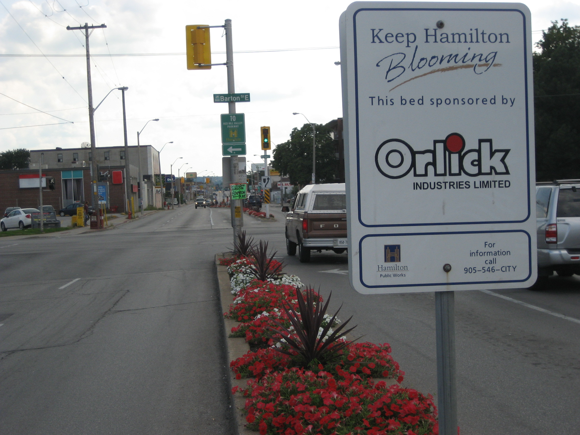 Intersection of Parkdale Avenue North & Barton Street East, Hamilton, Canada.